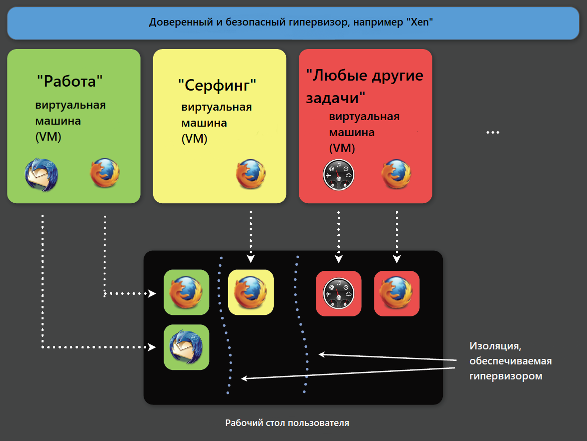 Translation of the original image into Russian language. Original: File:Qubes_security_domains.png